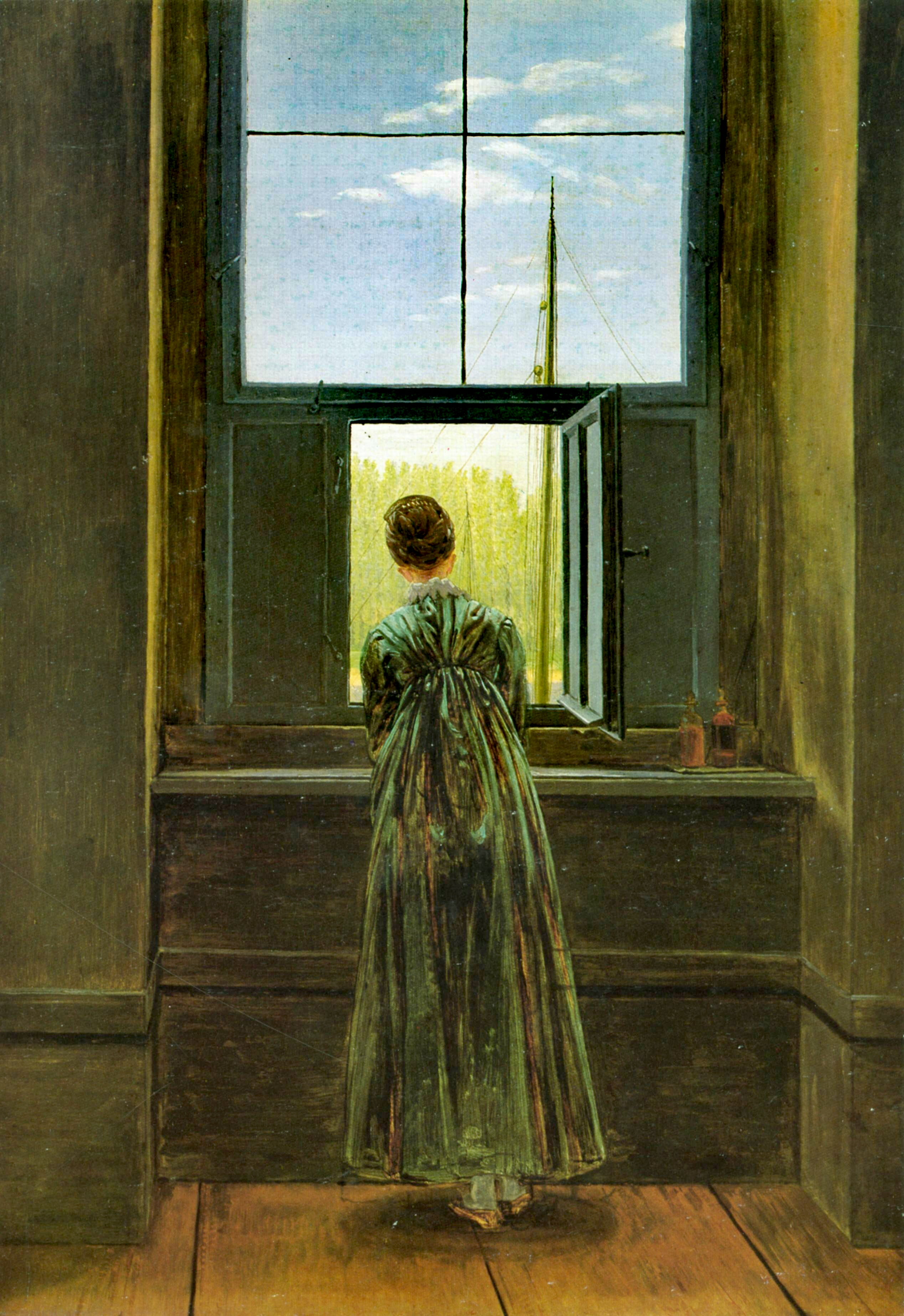 The artists' wife, Caroline Friedrich, in his studio in Dresden ‚An der Elbe 33‘